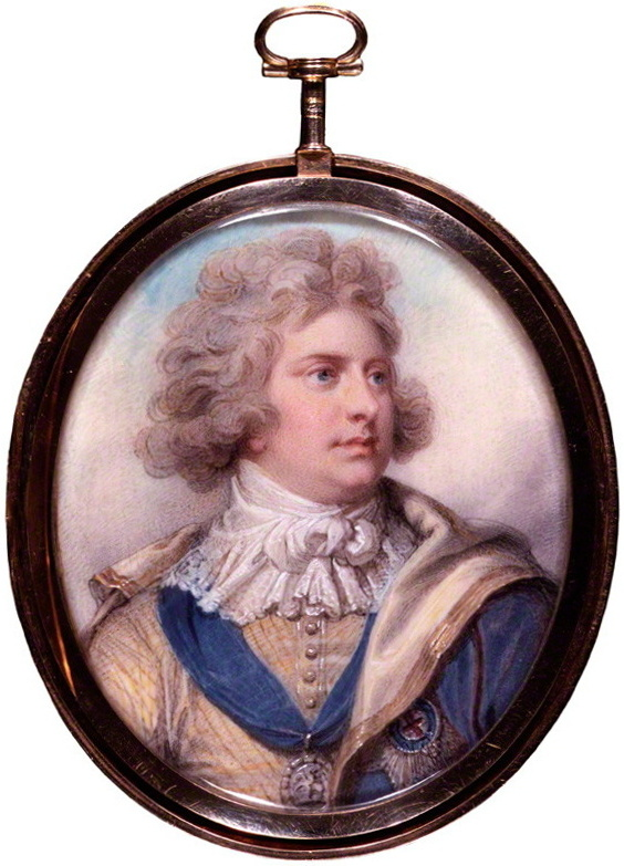 Portrait of George IV of the United Kingdom (1762-1830)